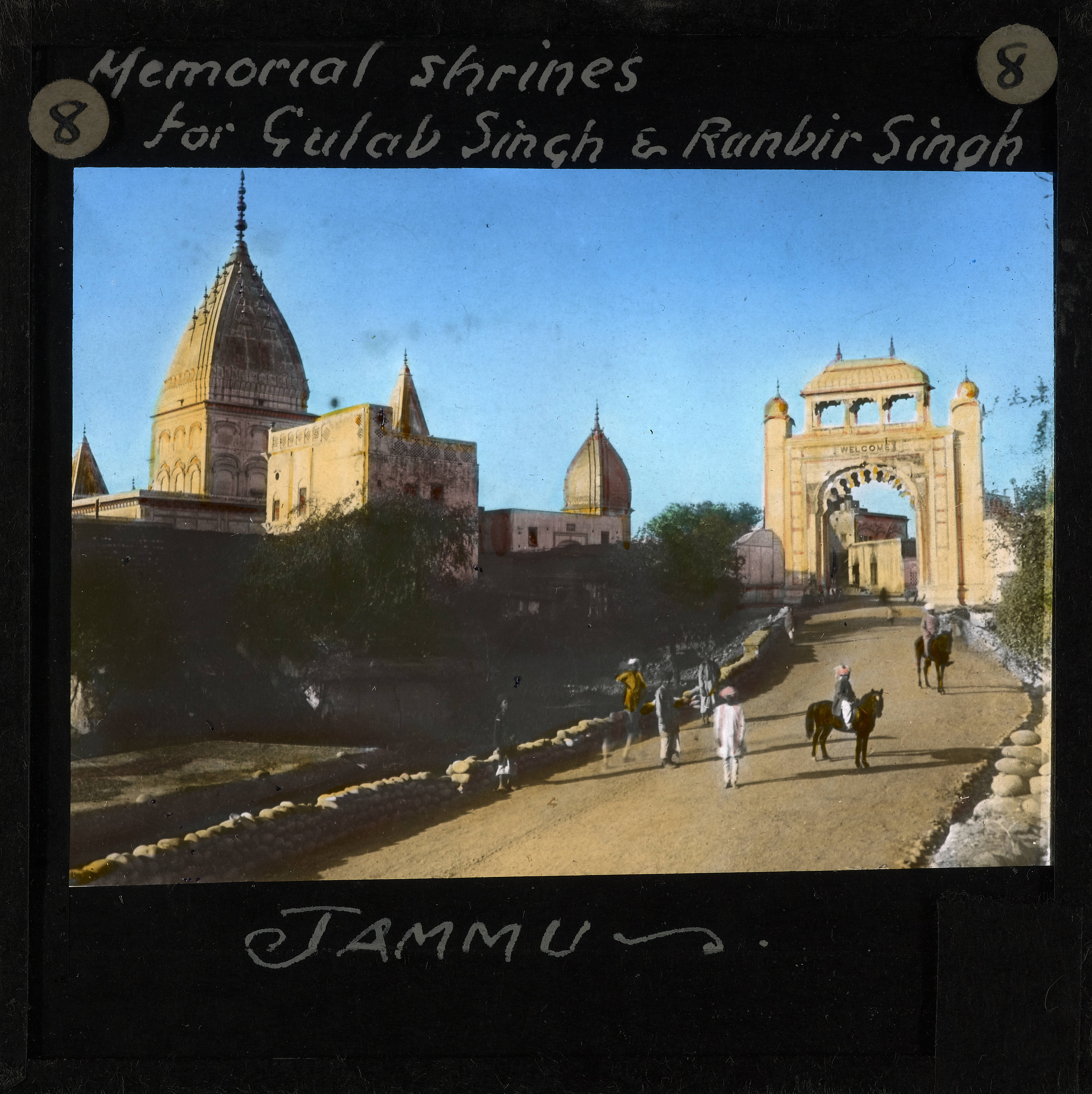 Memorial Shrines for Gulab Singh and Ranbir Singh, Jammu, India, ca.1875-ca.1940 Photograph of large memorial shrines in the city of Jammu. The shrines were built for Gulab Singh (1792a1857), the founder and first Maharaja of the state of Jammu and Kashmir, and his son Ranbir Singh (1830-1885).; This belongs to a series of Church of Scotland Foreign Missions Committee lantern slides relating to Jammu City, which is also known as the "City of Temples". A mission station occupied by Church of Scotland missionaries was founded here in the late 19th/early 20th century. Jammu is also one of the three administrative divisions within Jammu and Kashmir, the northernmost state in India. Photographer: Unknown Subject (personal name): Gulab Singh, Maharaja of Kashmir, 1792-1858; Ranbir Singh, Maharaja of Jammu and Kashmir, 1830-1885 Filename: imp-cswc-GB-237-CSWC47-LS10-008.tif Coverage date: 1875/1940 Part of collection: International Mission Photography Archive, ca.1860-ca.1960 Geographic subject (region): Jammu and Kashmir Type: images Part of subcollection: Photographs from the Centre for the Study of World Christianity, University of Edinburgh, U.K., ca.1900-ca.1940s Repository name: Centre for the Study of World Christianity Archival file: impaunpub_Volume7/1724.url Repository address: The University of Edinburgh School of Divinity, New College, Mound Place, Edinburgh EH1 2LX, United Kingdom Geographic subject (country): India Format (aacr2): 1 lantern slide : 8 x 8 cm. Geographic subject (continent): Asia Rights: Contact the repository for details. Part of series: In the Temple City of Jammu LS10 Repository Subject (lcsh Keyword): Memorials; Heads of state Date created: 1875/1940 Publisher (of the digital version): University of Southern California. Libraries Subject (aat genre): exterior views Format (aat): lantern slides Legacy record ID: impa-m69232 Access conditions: File: GB 237 CSWC47/LS10/8